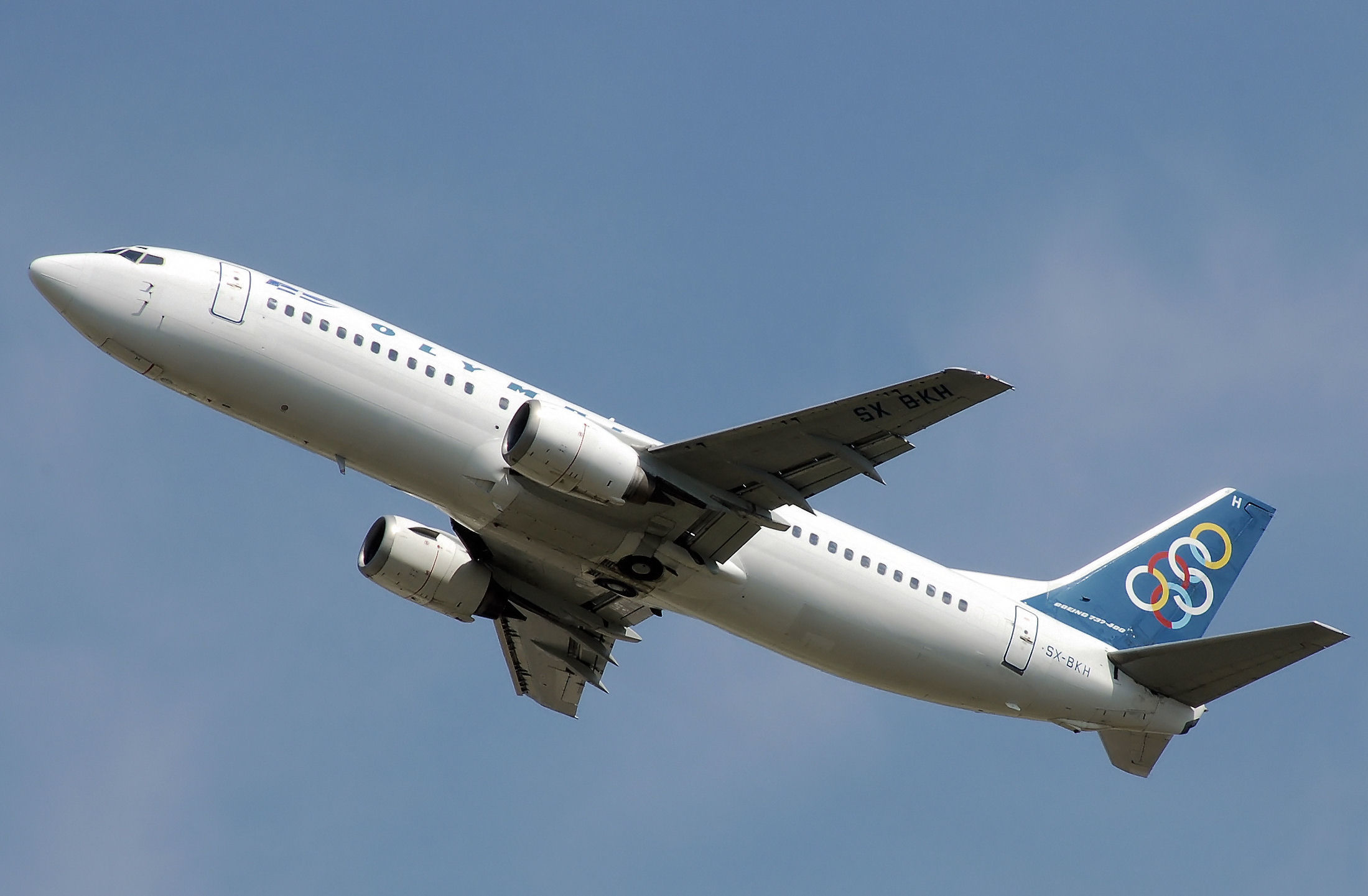 Olympic Airlines Boeing 737-400 (SX-BKH) landing at London Heathrow Airport.